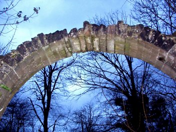 TheBourtreehillian My own collection